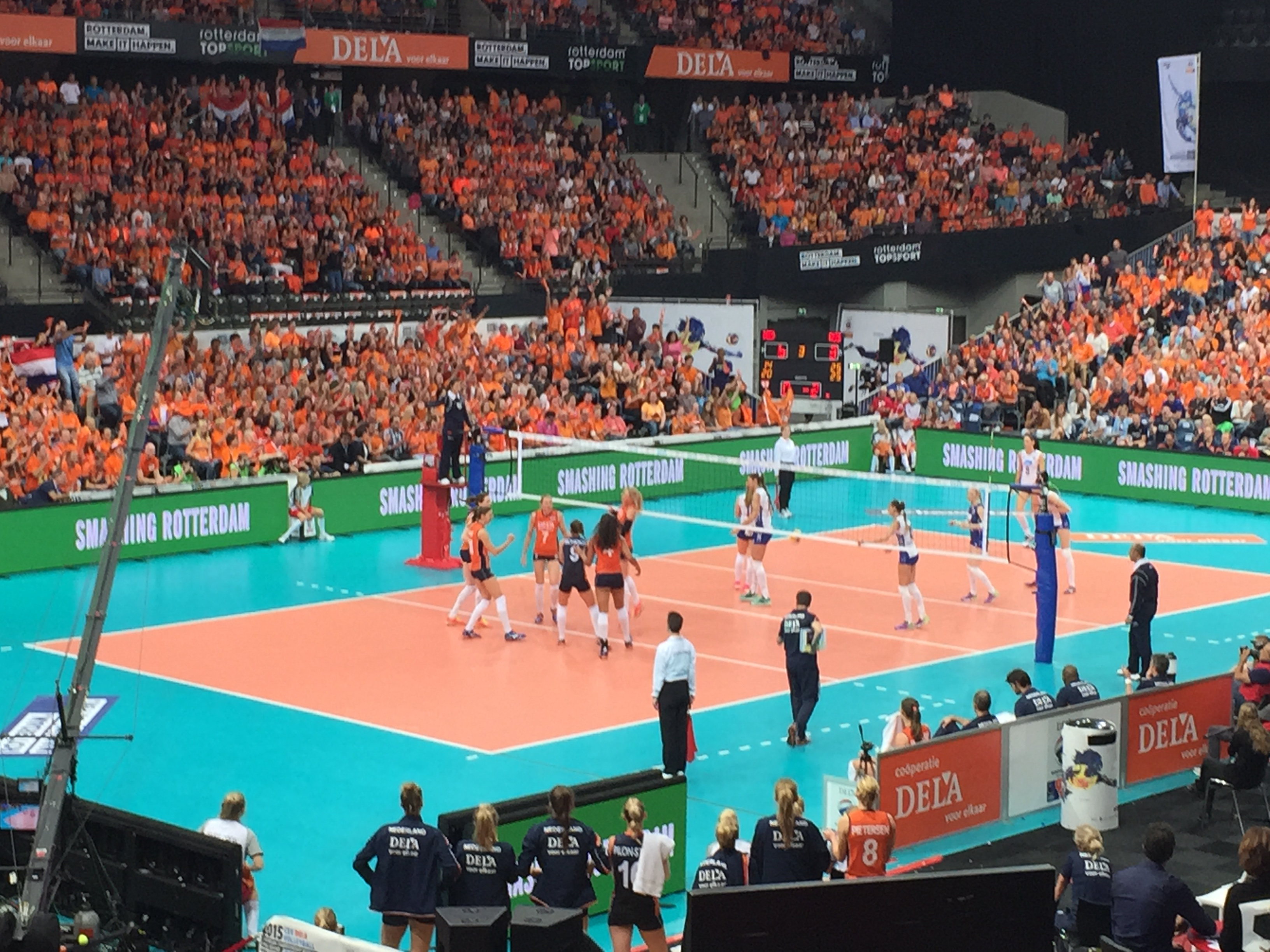 European Women's Championship Volleyball 2016 2015 Women's European Volleyball Championship. Final between the Netherlands and Russia